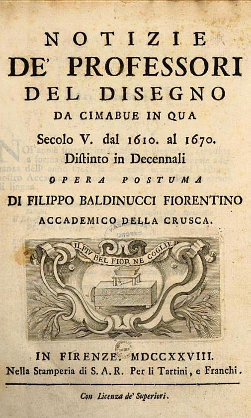 Baldinucci, Filippo (1728). Notizie de' Professori del Disegno, Da Cimabue in qua, Secolo V. dal 1610. al 1670. Distinto in Decennali (or Notice of the Professors of Design, from Cimabue to now, from 1610–1670). Stamperia S.A.R. per li Tartini, e Franchi (Googlebooks entry).